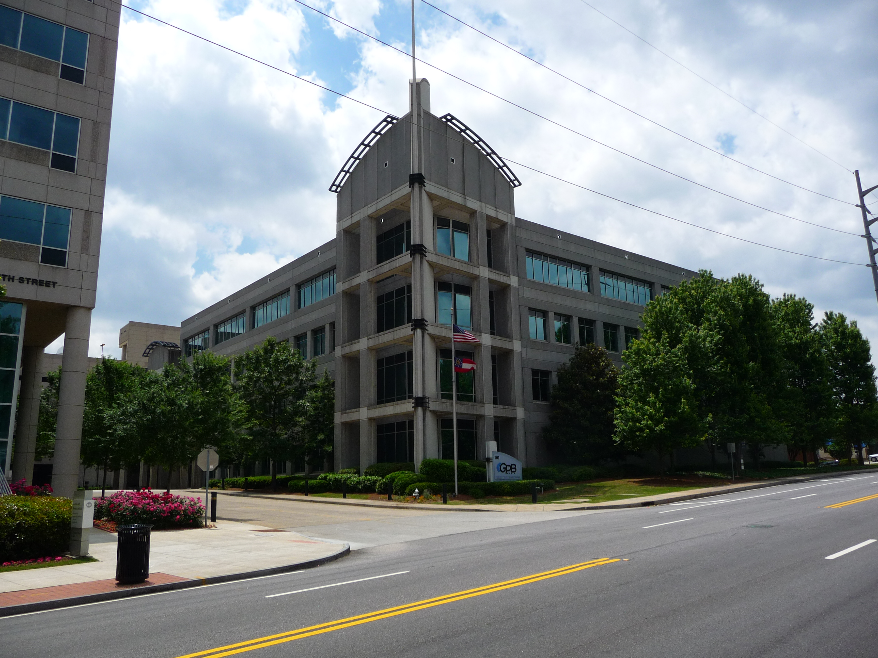 Georgia Public Broadcasting building